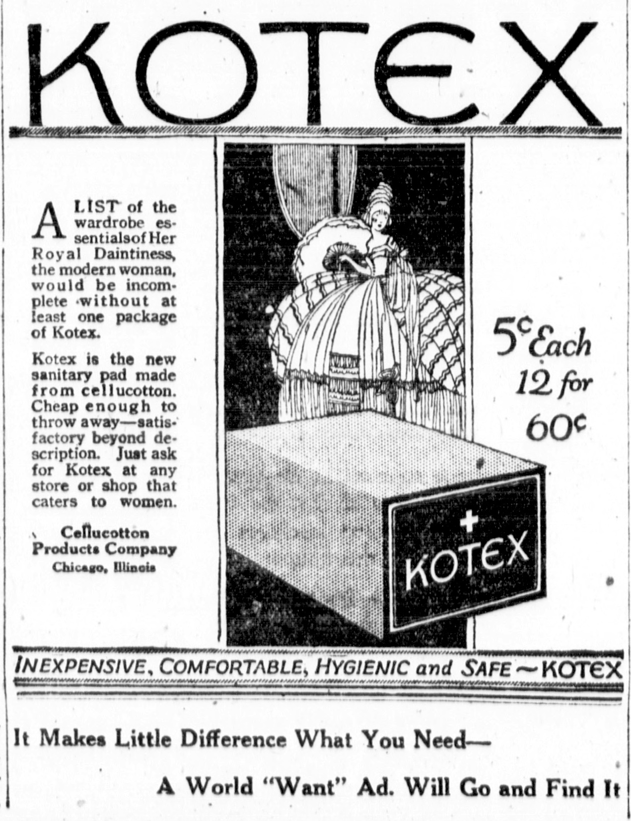 A Kotex newspaper advert.